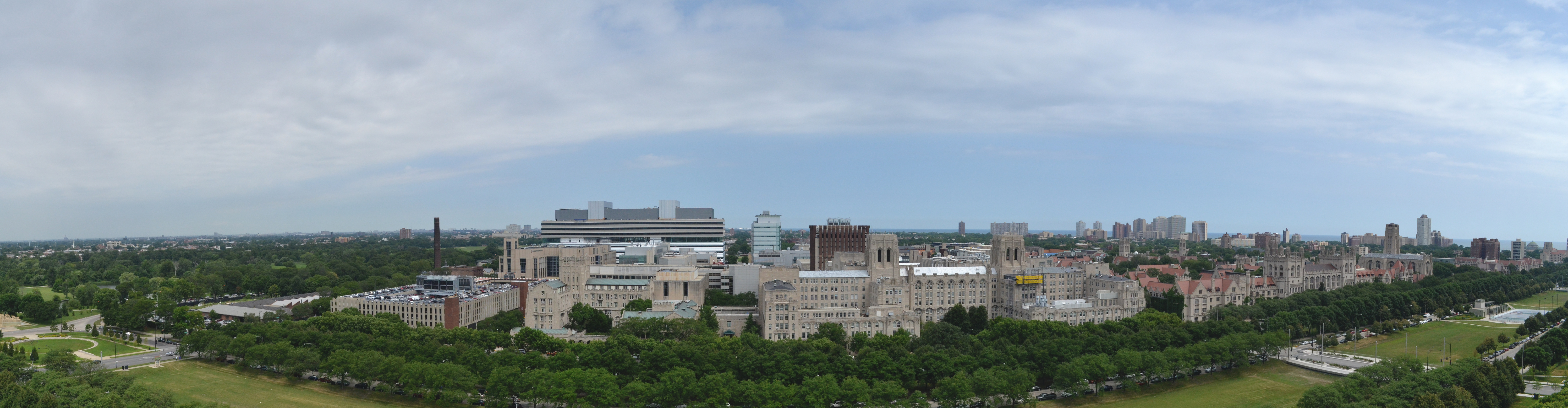 Taken from roof of Liberal arts building facing north